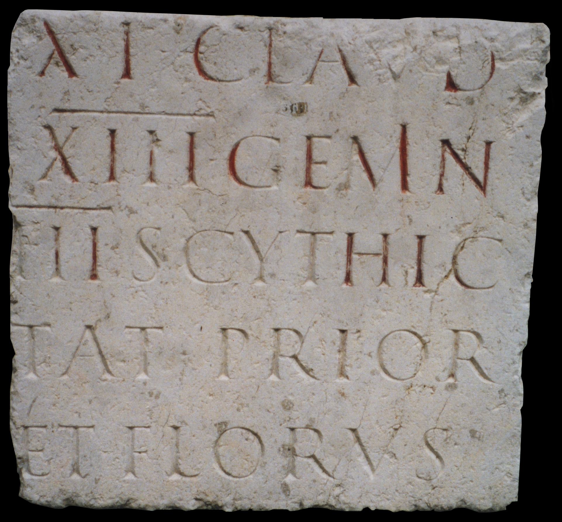 Ancient Roman inscription from Lyon. It mentioned a centurion. Reference : CIL XIII, 1859.